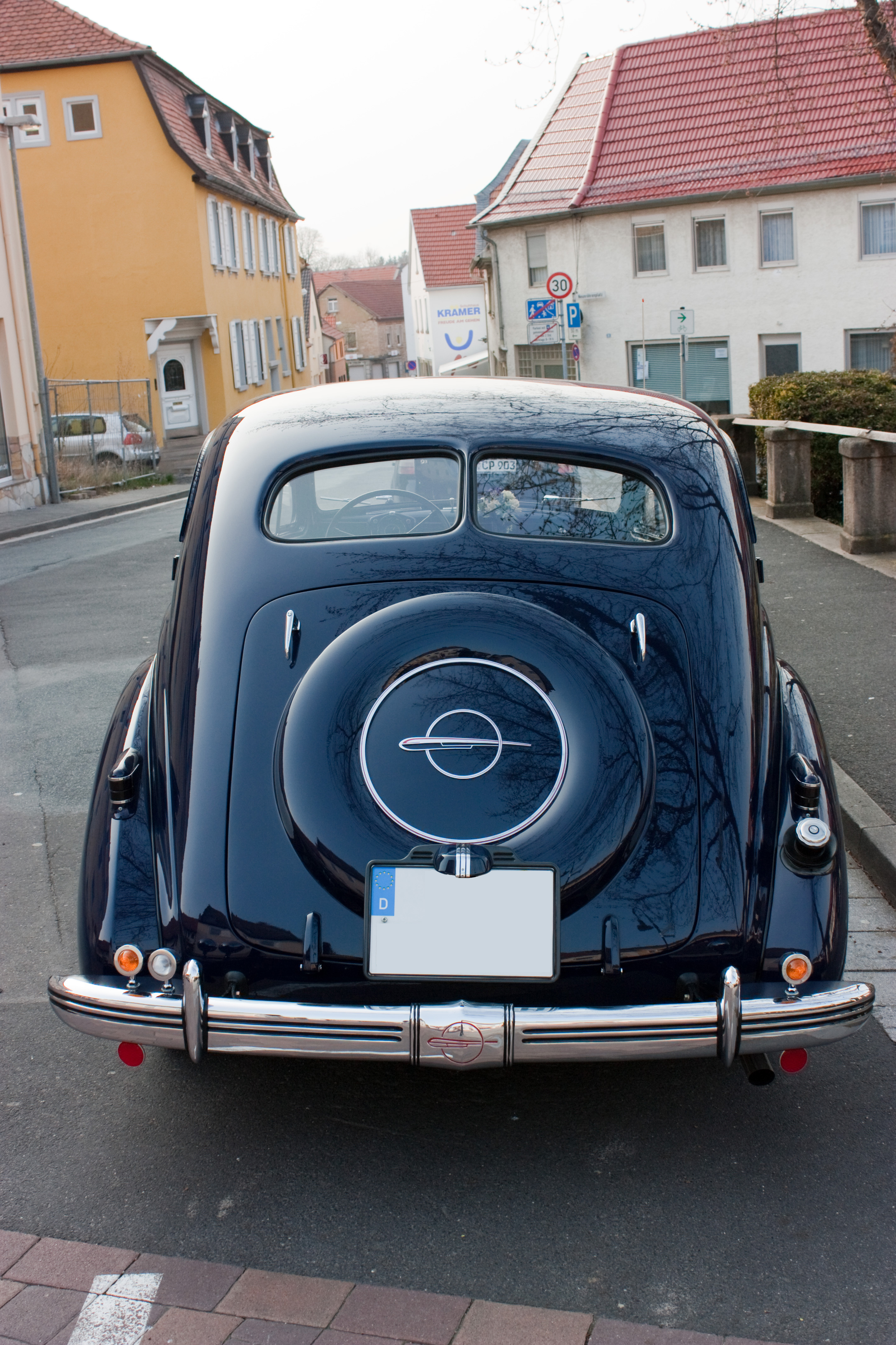 From Milestoned's photostream on Flickr.